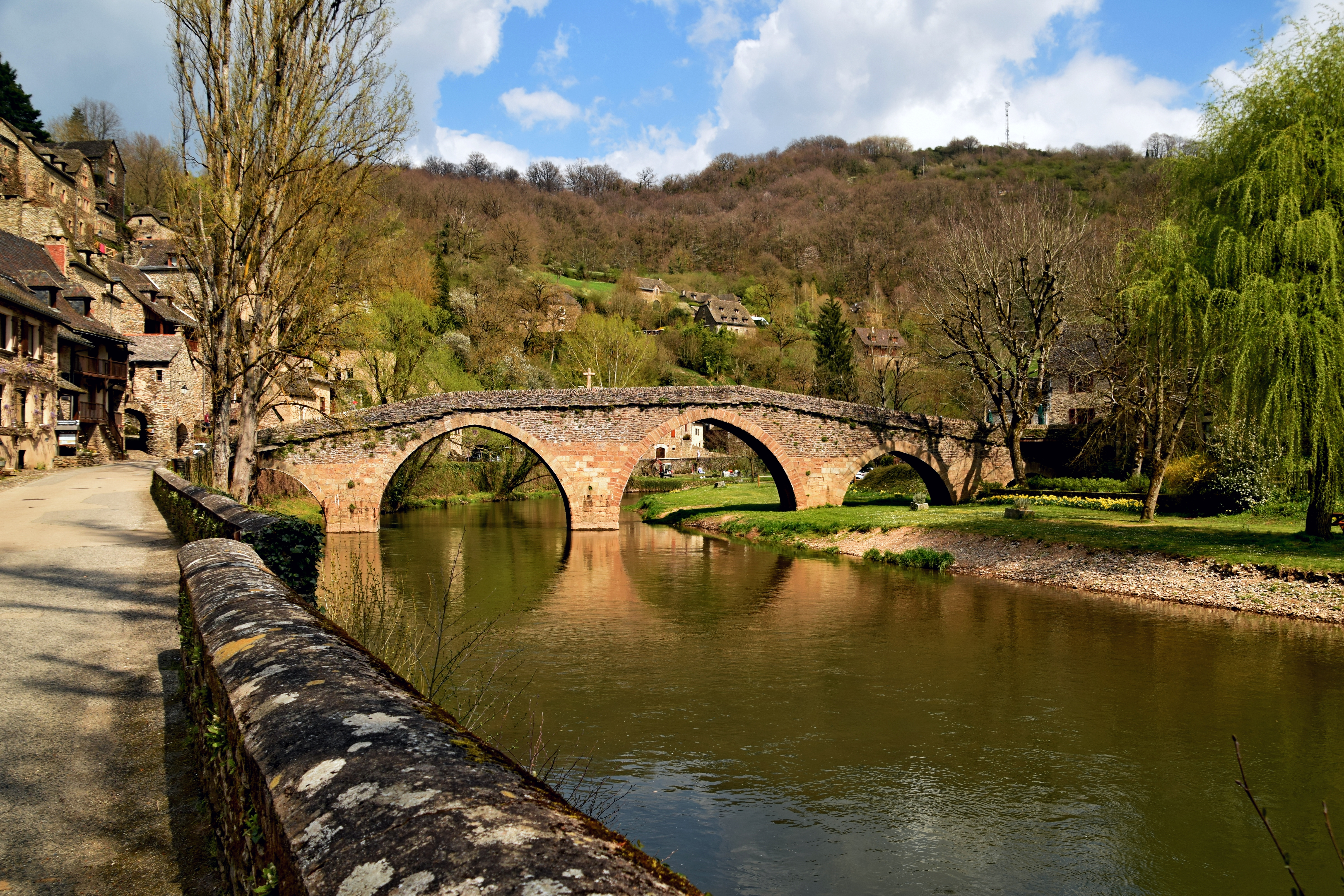 Vieux Pont de Belcastel, Aveyron, France .